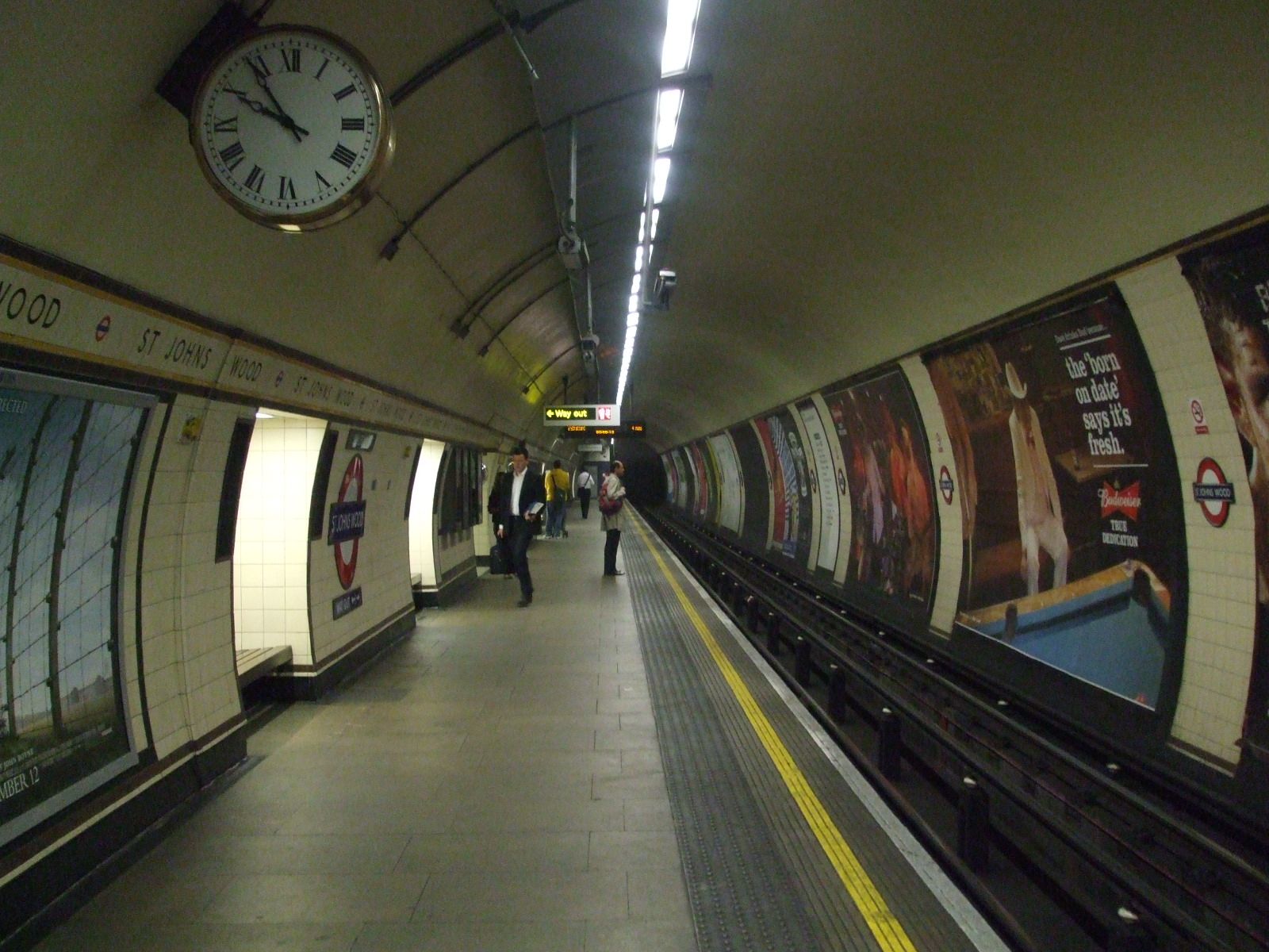 St Johns Wood tube station eastbound platform looking west